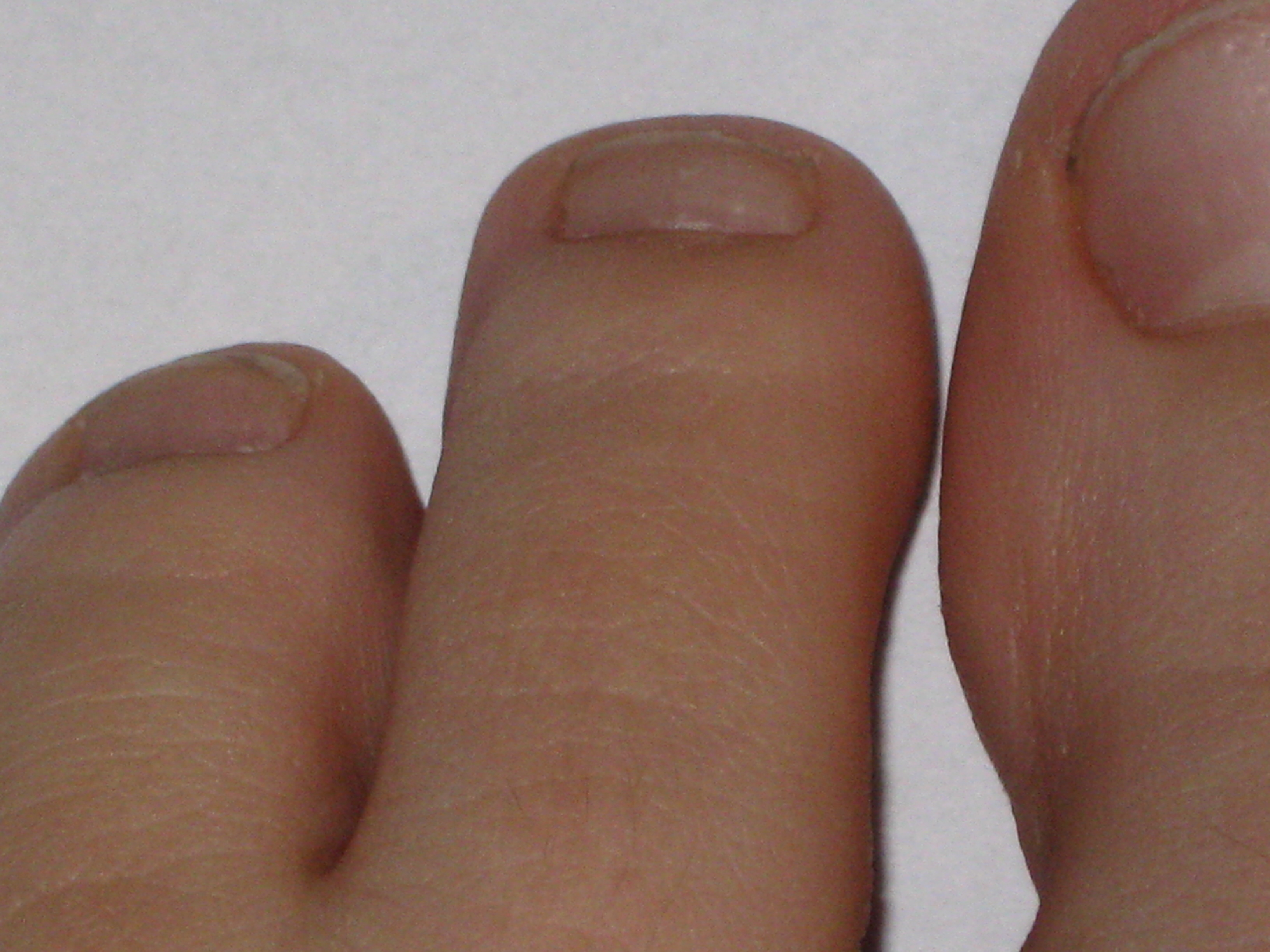 Long toe, left leg.